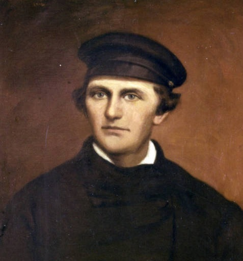 John Thomas Lewis Preston, founder of Virginia Military Institute. 1907 portrait of Preston based on an 1855 photo. On display at Preston Library, Virginia Military Institute.